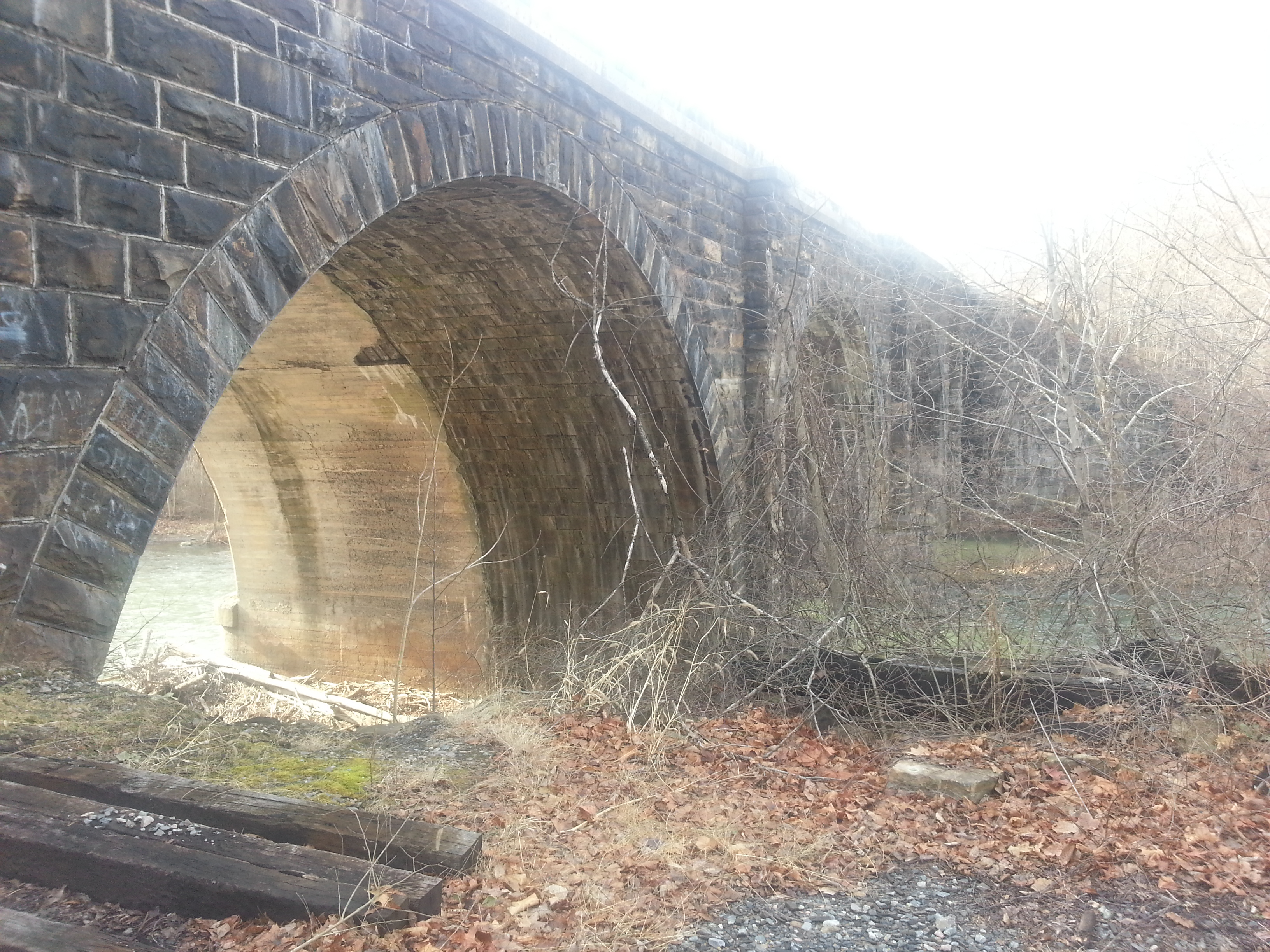 Picture of the bridge - stone side